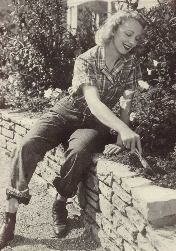 Publicity photo of Virginia Bruce for Argentinean Magazine. (Printed in USA)